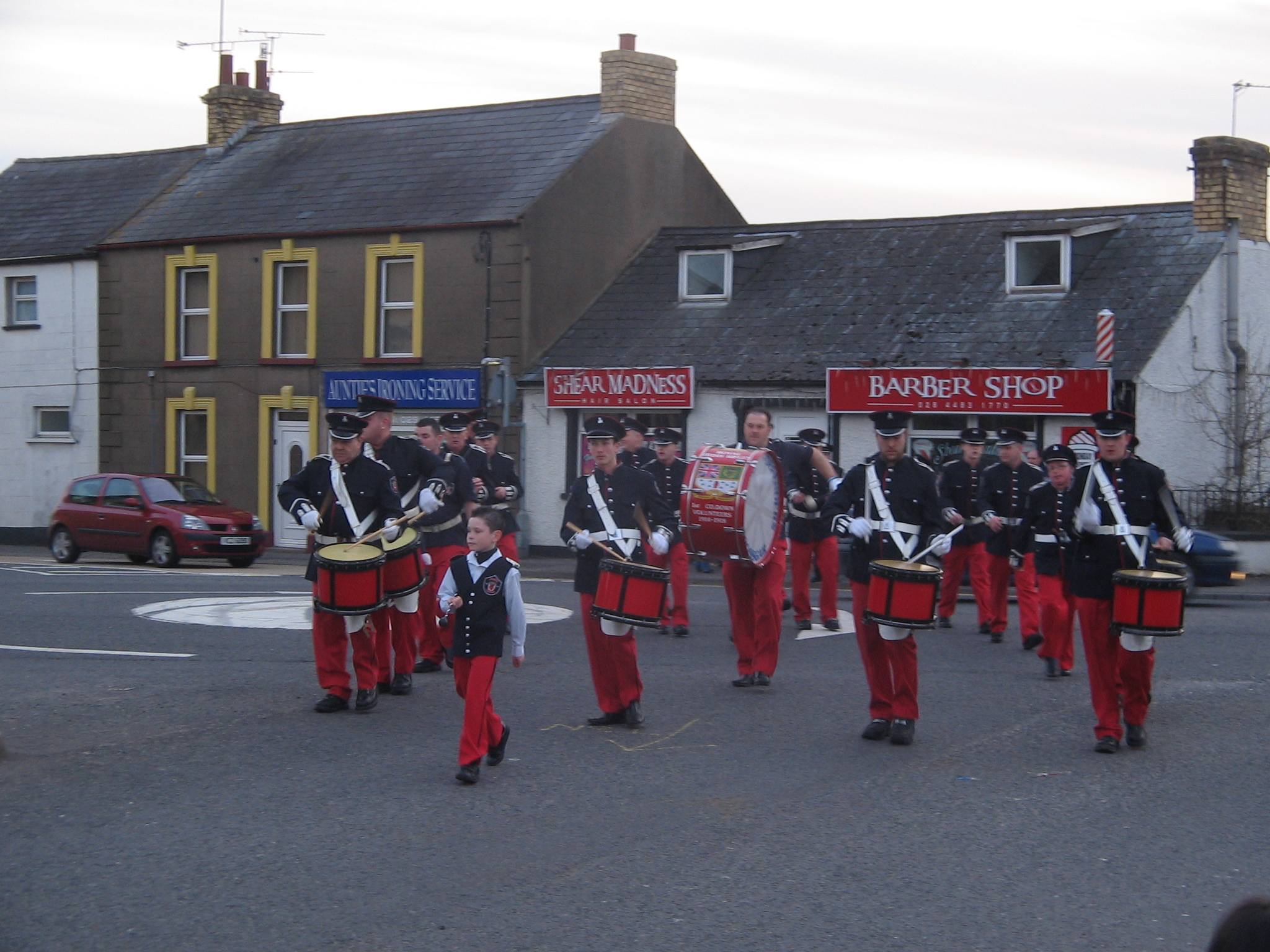 Crossgar Young Defenders, match through Crossgar village in County Down, Northern Ireland, as they open an annual parade.